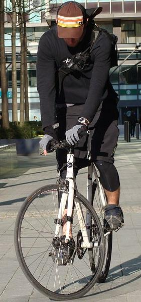 London bicycle courier